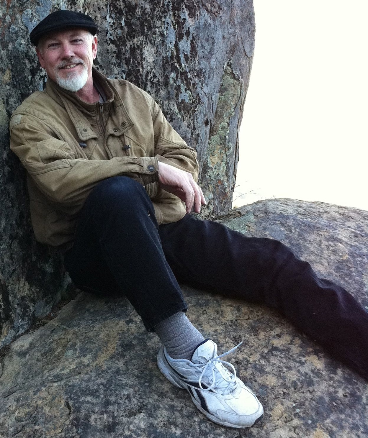 William (Bill) Charles Dawson V